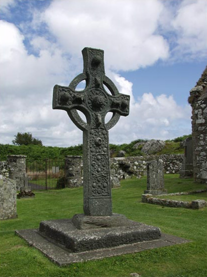 Kildalton Church, stone cross. The cross is covered it celtic design and very old.